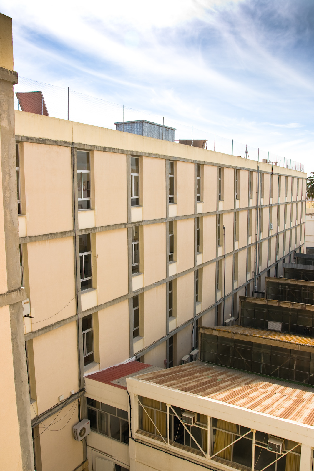 Escuela Superior de Ingeniería of Cádiz, main building and exterior labs.